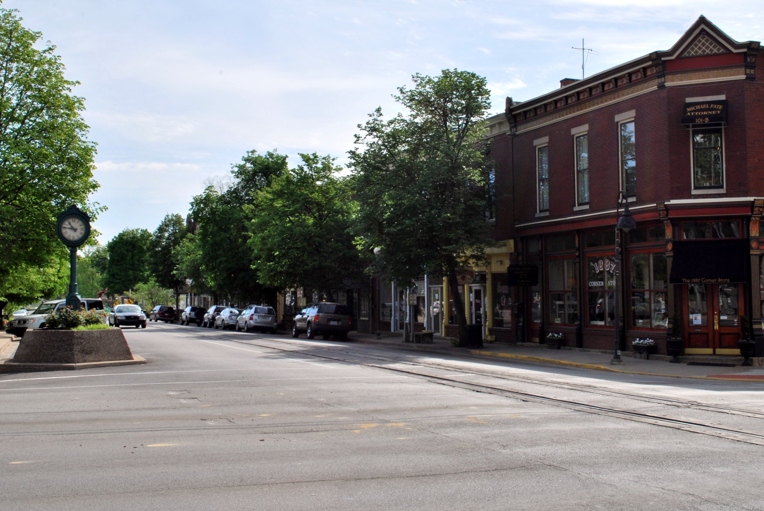 Downtown La Grange, Kentucky, USA